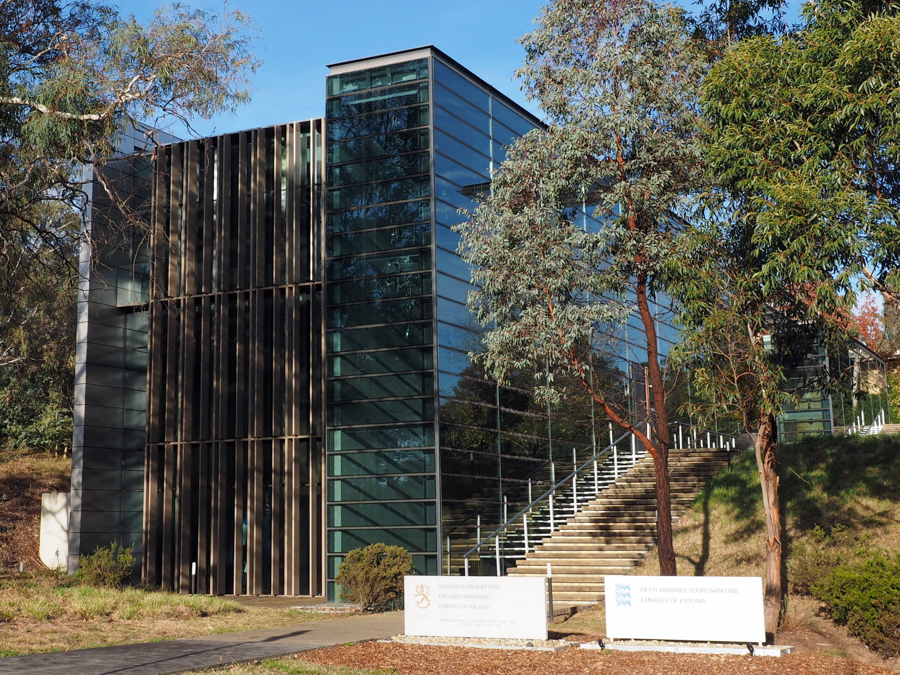 The Embassy of Finland and Estonia to Australia